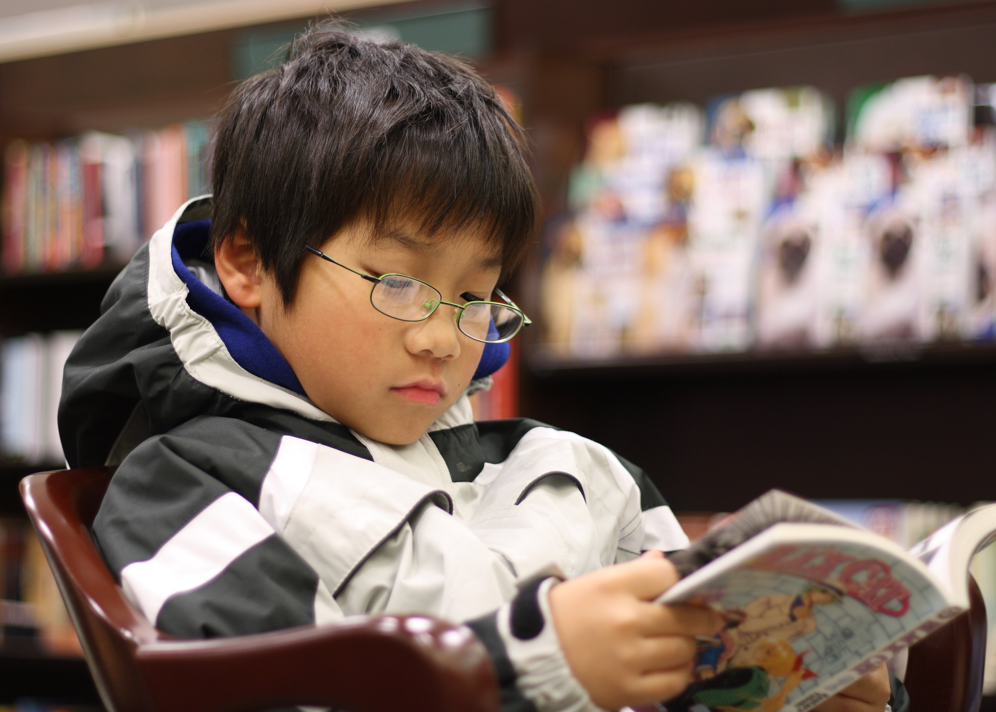 An asian boy reading GRAPHiC N0VEL in a Barnes & Noble bookstore in West Hartford, Connecticut